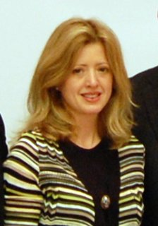 Ann-Margaret Carrozza receiving an award at the Parker Jewish Institute on March 6, 2011